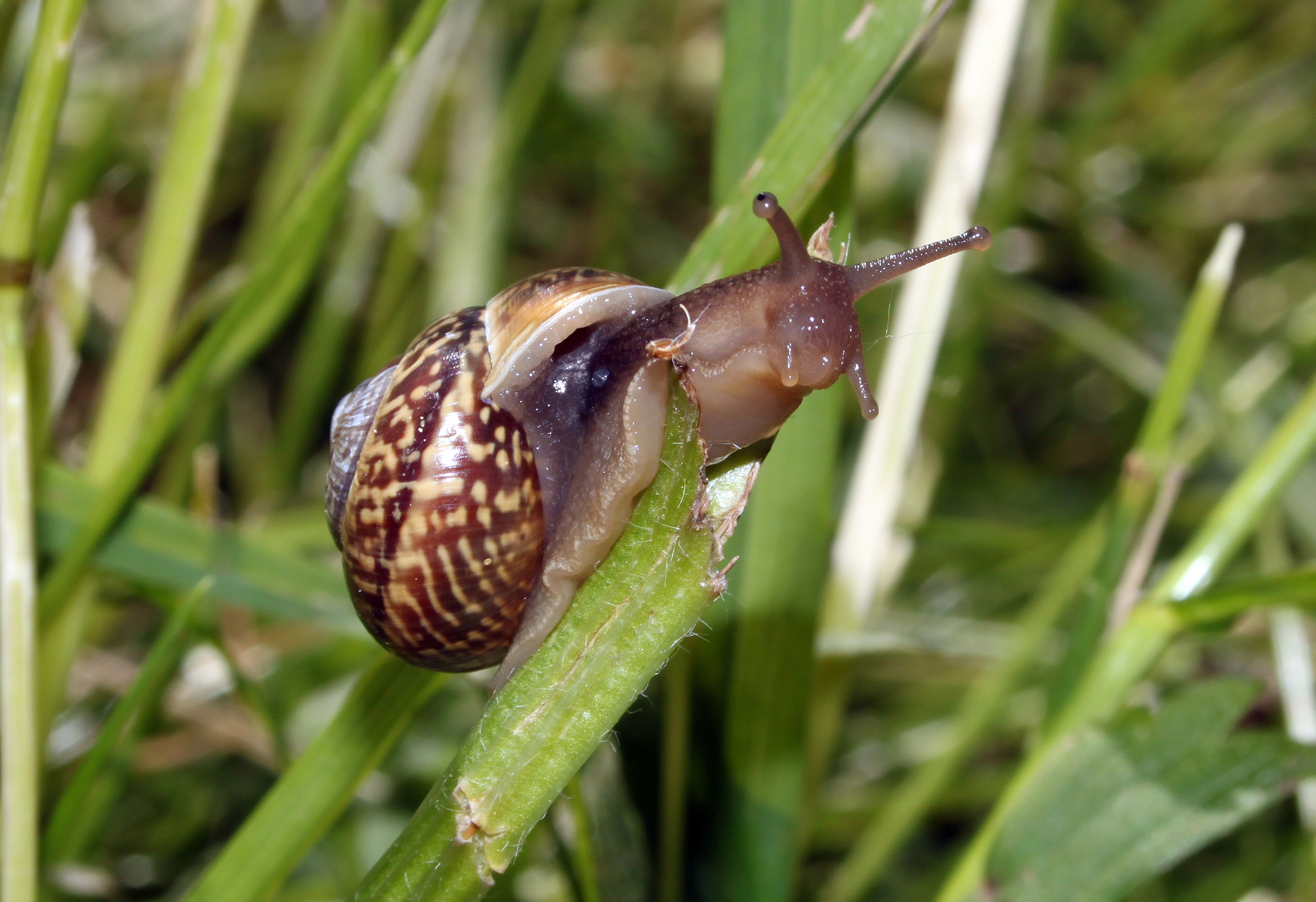 Arianta arbustorum. Family Helicidae. Land snail. Location: Southern Germany